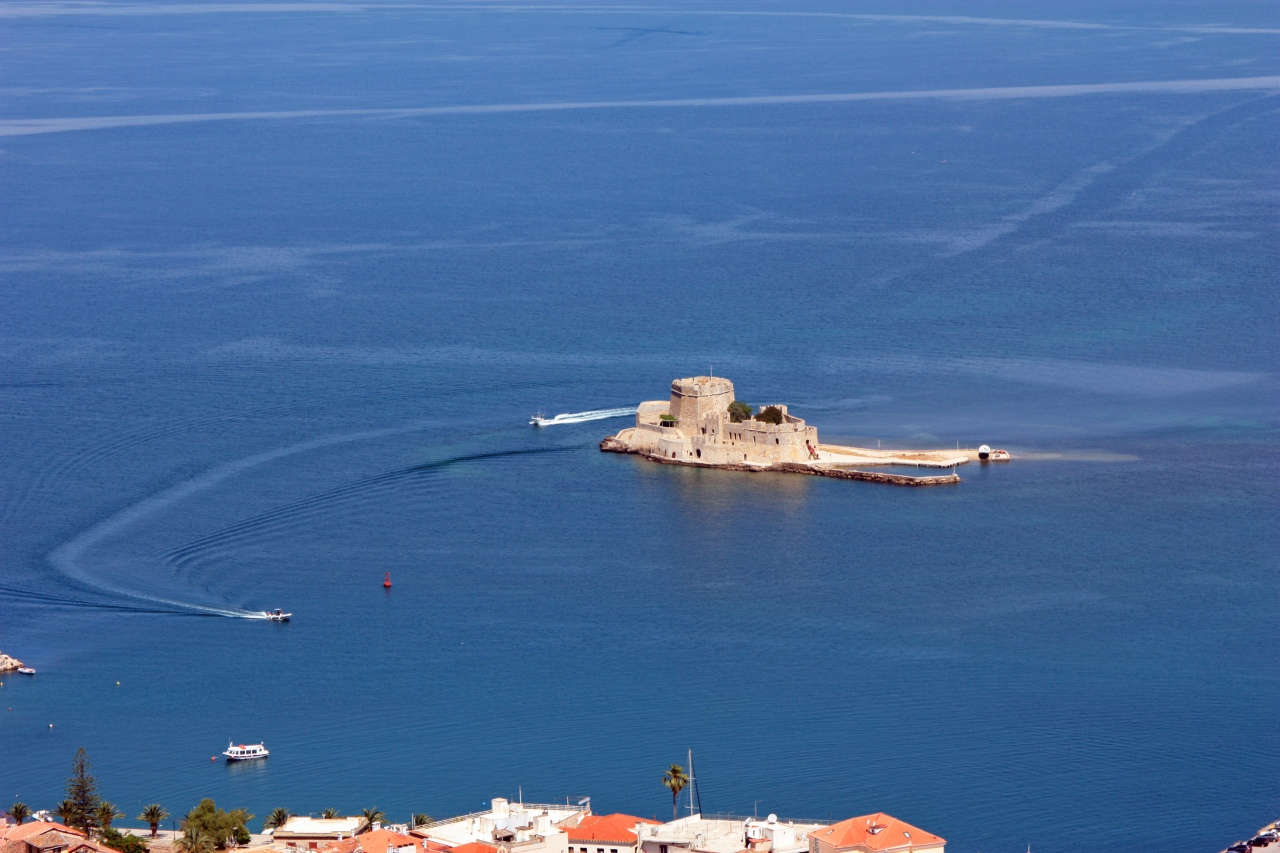 The castle of Bourtzi, Nafplio